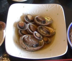 Haliotis diversicolor supertexta